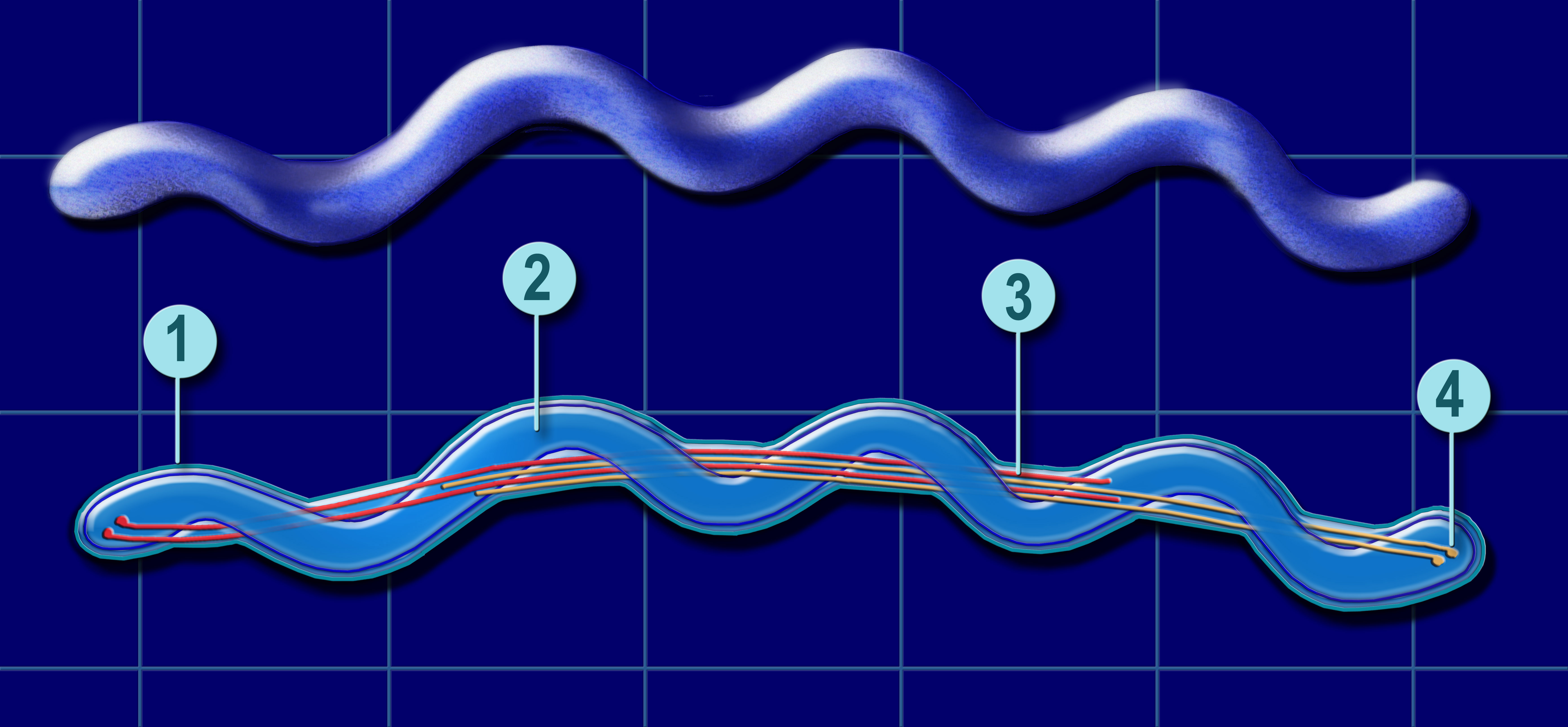 Drawing of spirochaete's mobility system (with internal flagellae)